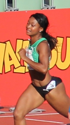 Ezinne Okparaebo at her 11.26 national record 100 meter sprint at the 2010 Bislett Games (cropped).